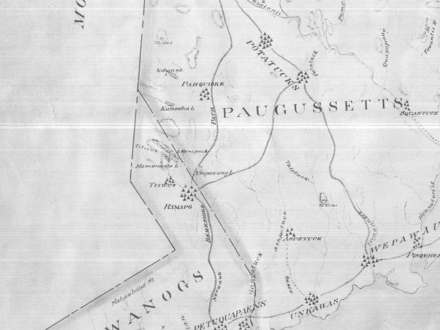 Map of Ramapoo tribe in Connecticut.